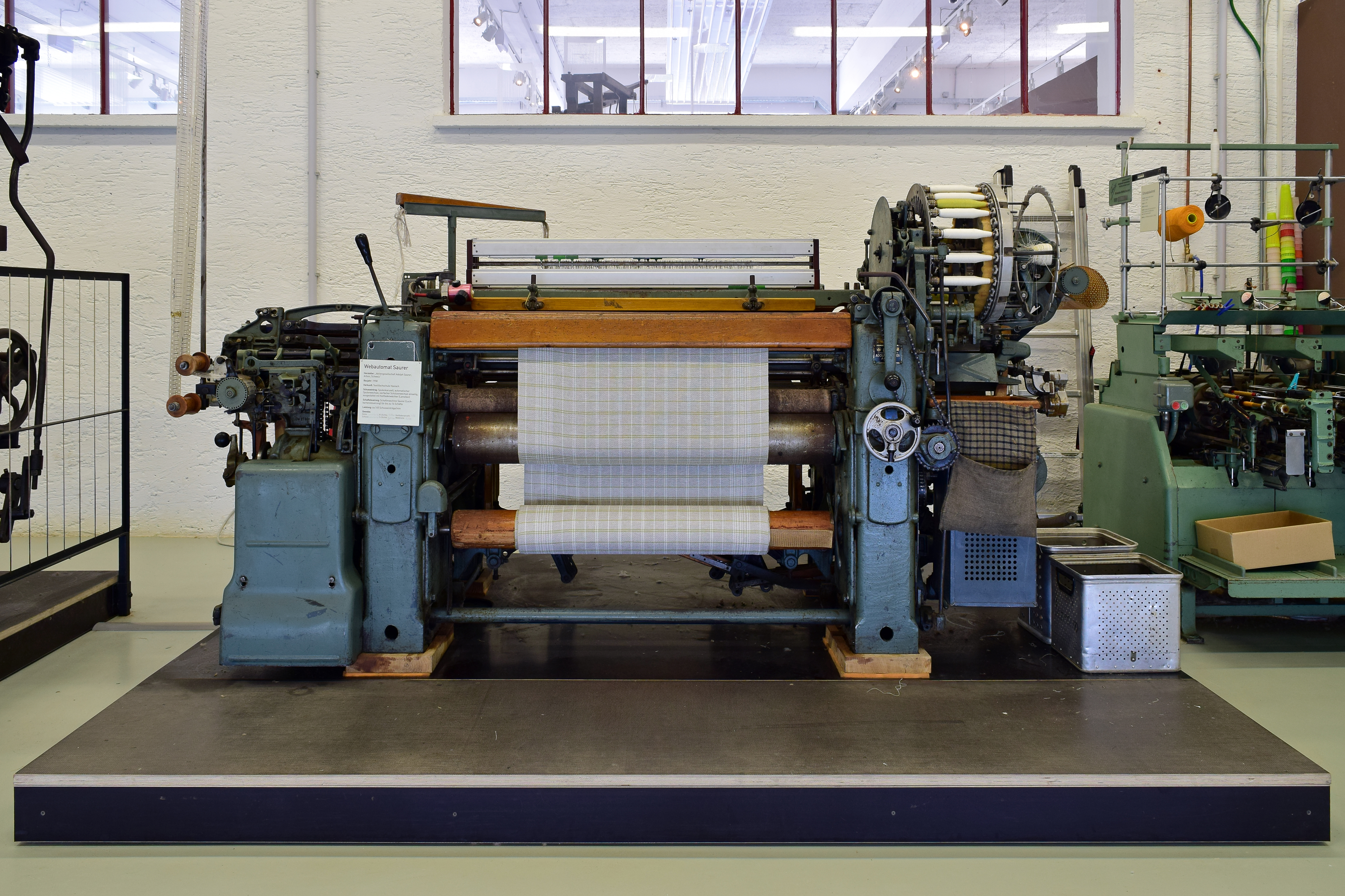 Power loom Saurer, 1958, in the textile museum in Haslach an der Mühl, Upper Austria.